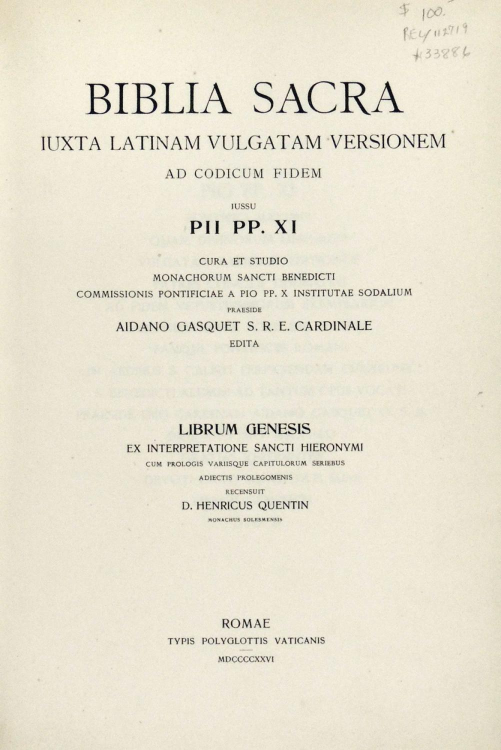 Benedictine Vulgate (Biblia sacra iuxta Latinam vulgatam versionem ad codicum fidem) - Vol. 1 (Genesis), title